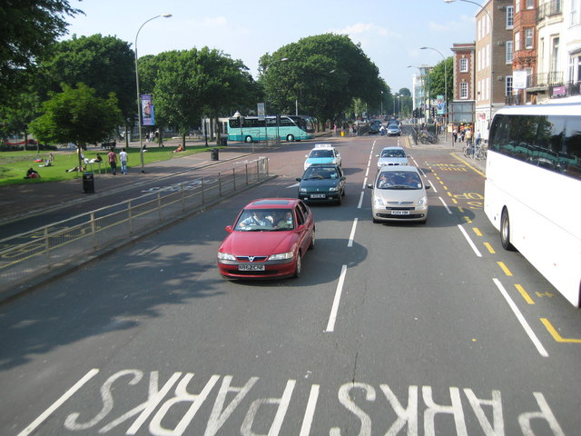 Brighton: Old Steine Cars make their way towards the seafront down the east side of the Old Steine, past the junction with St James's Street. This was taken from the very southern edge of the grid square looking north into it.